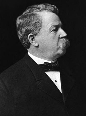 Portrait of George A. Clough, architect, Boston, Mass.